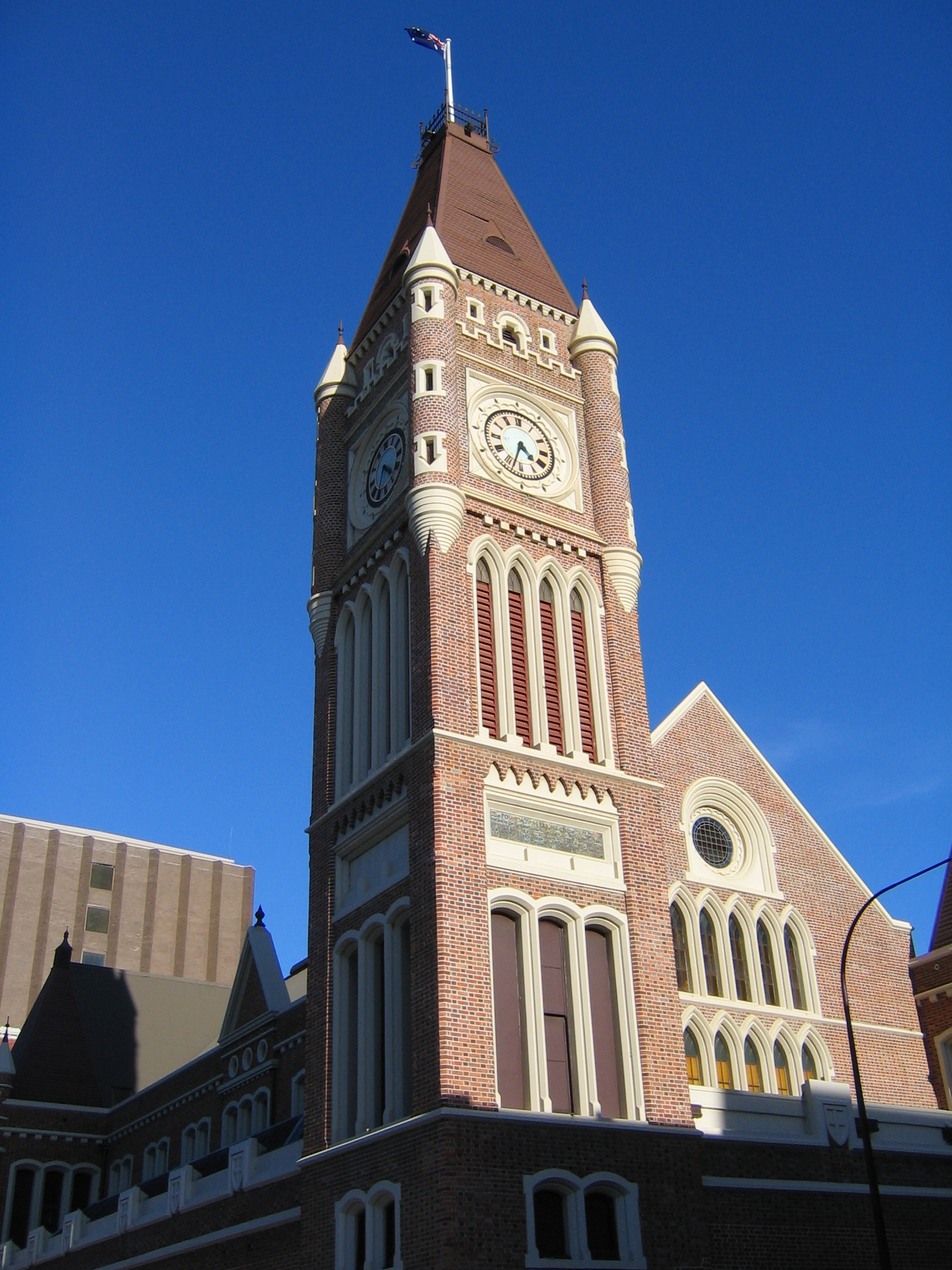 Perth Town Hall, corner of Barrack and Hay streets, Perth, Western Australia.